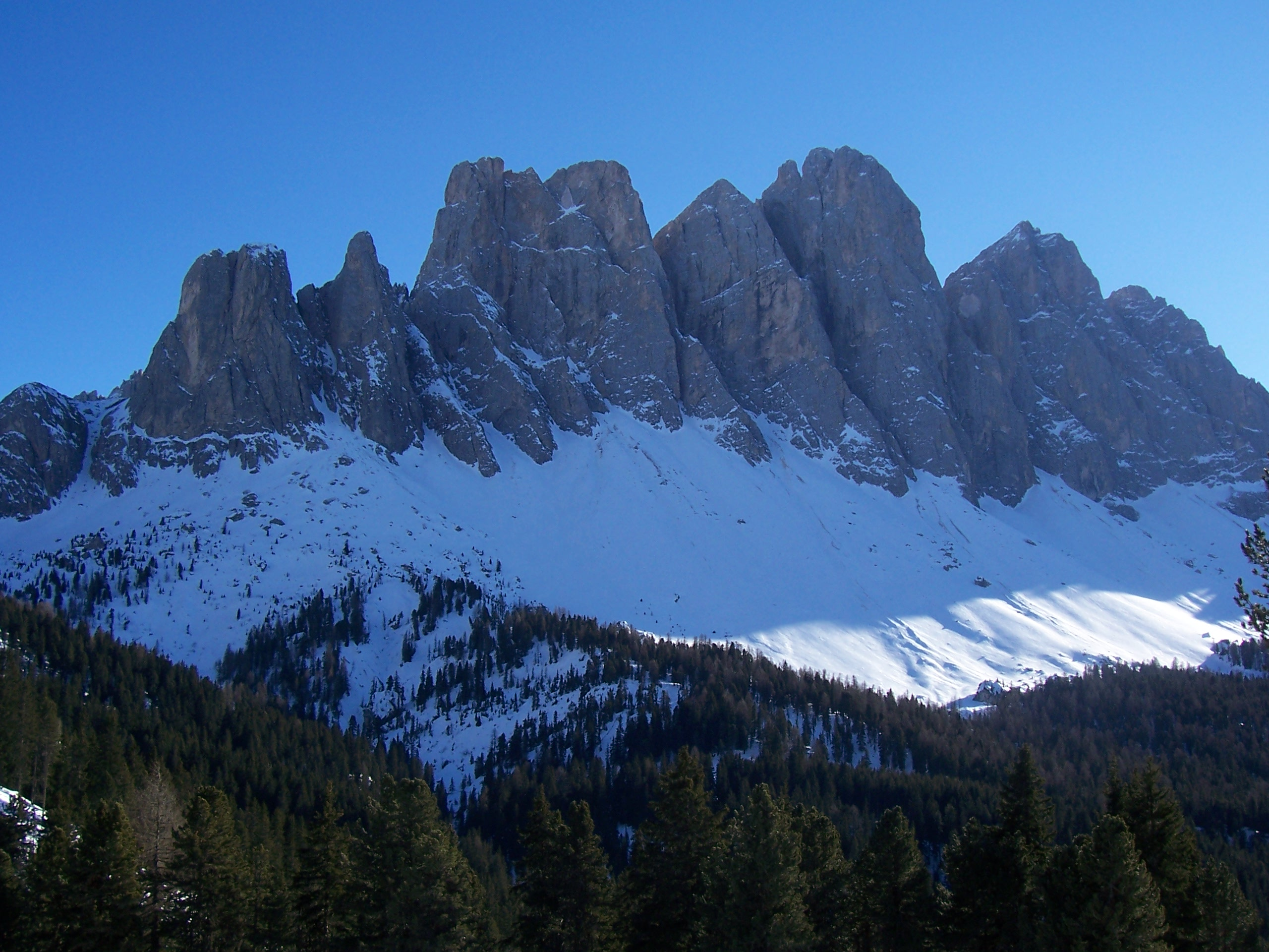 Naturpark Puez-Geisler at Villnöß, South Tyrol